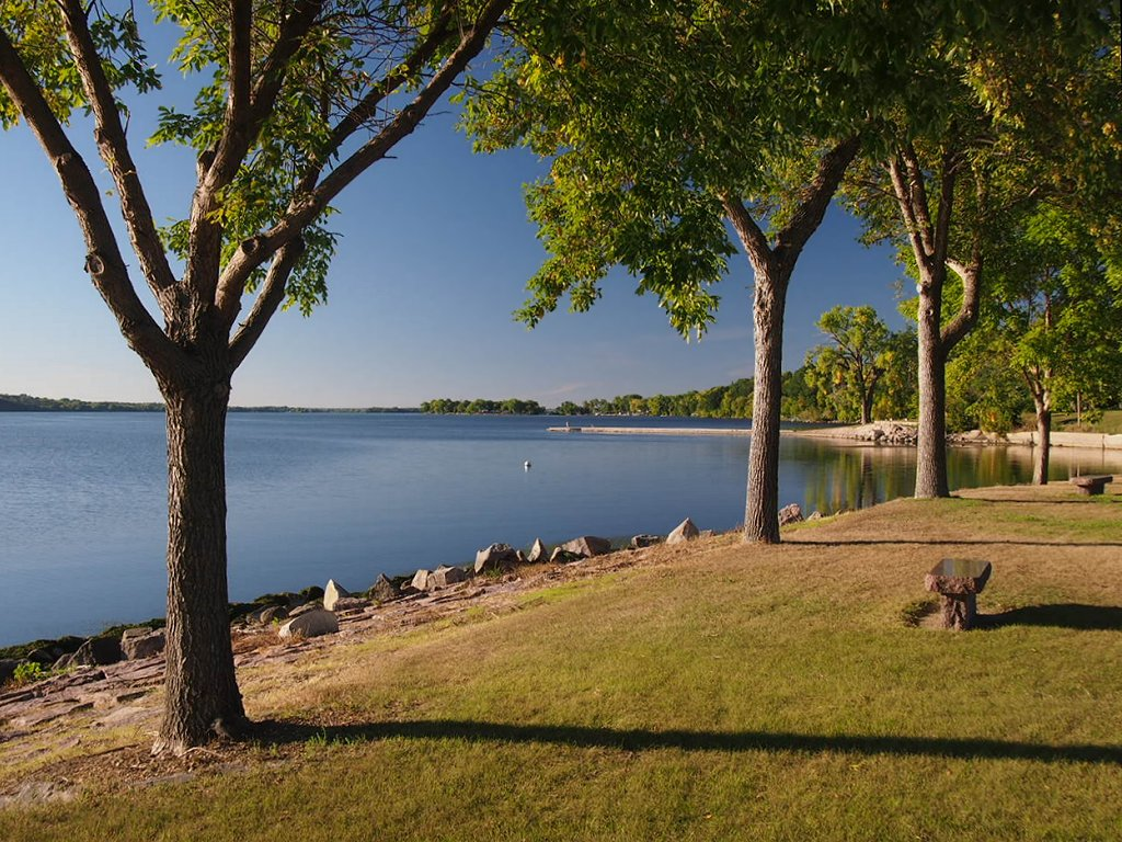 Big Stone Lake from Lakeside Park, Ortonville, Minnesota, USA. View facing north-northwest.